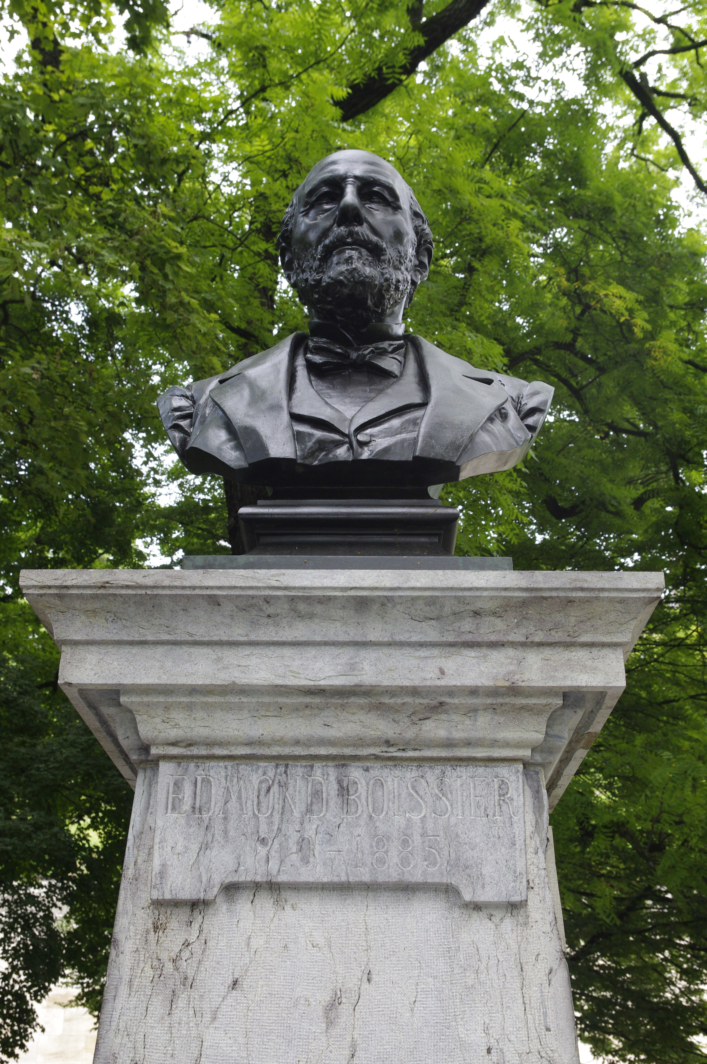 Geneva - Promenade de la Treille, Statue of Edmond Boissier.